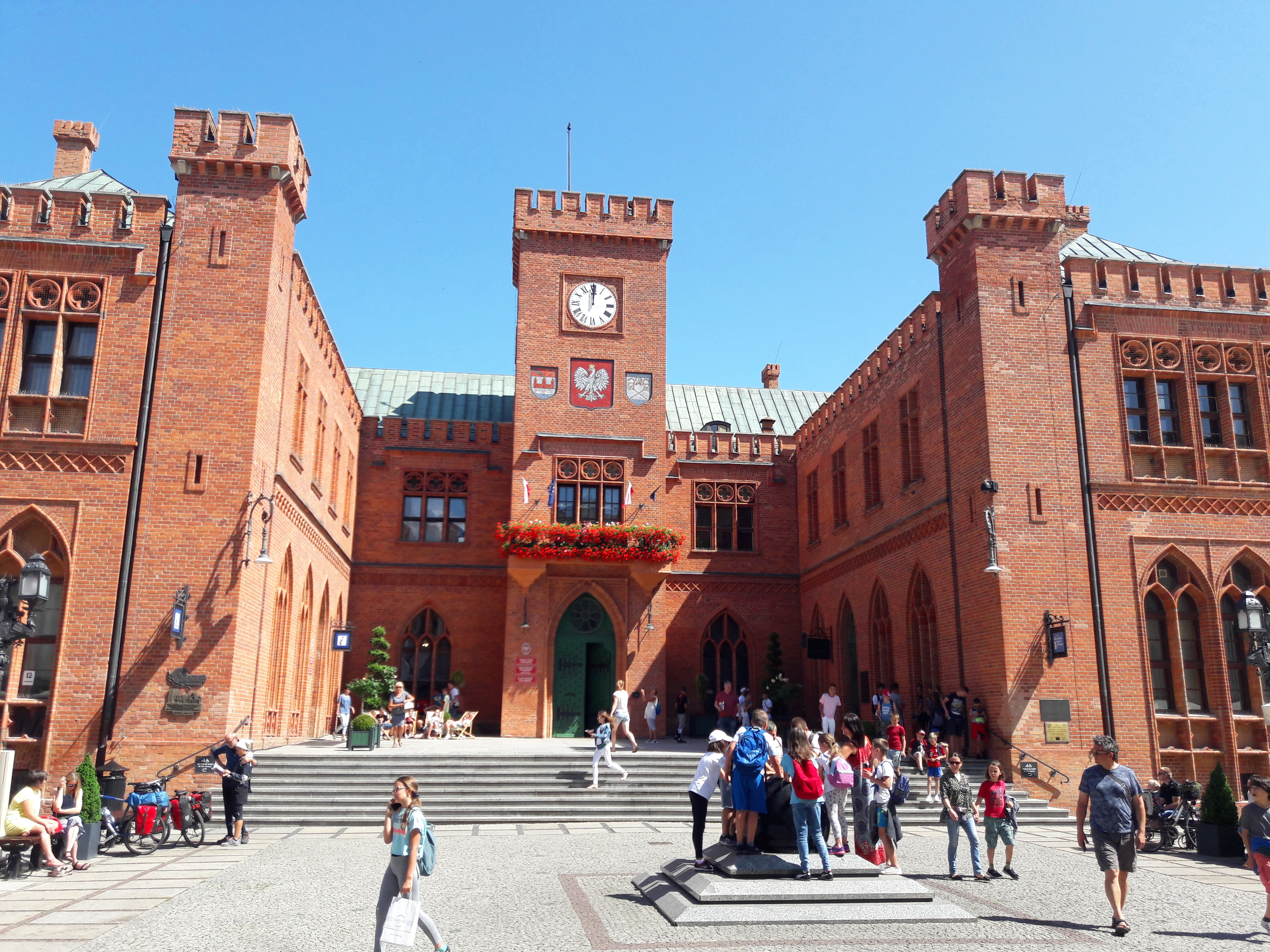 Town Hall in Kołobrzeg